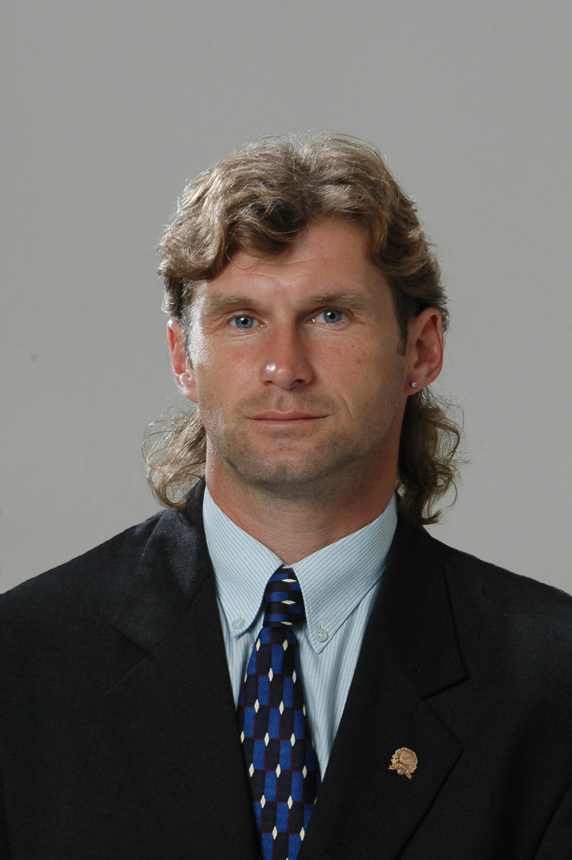 Deputy of the 9th Saeima and football player Mihails Zemļinskis